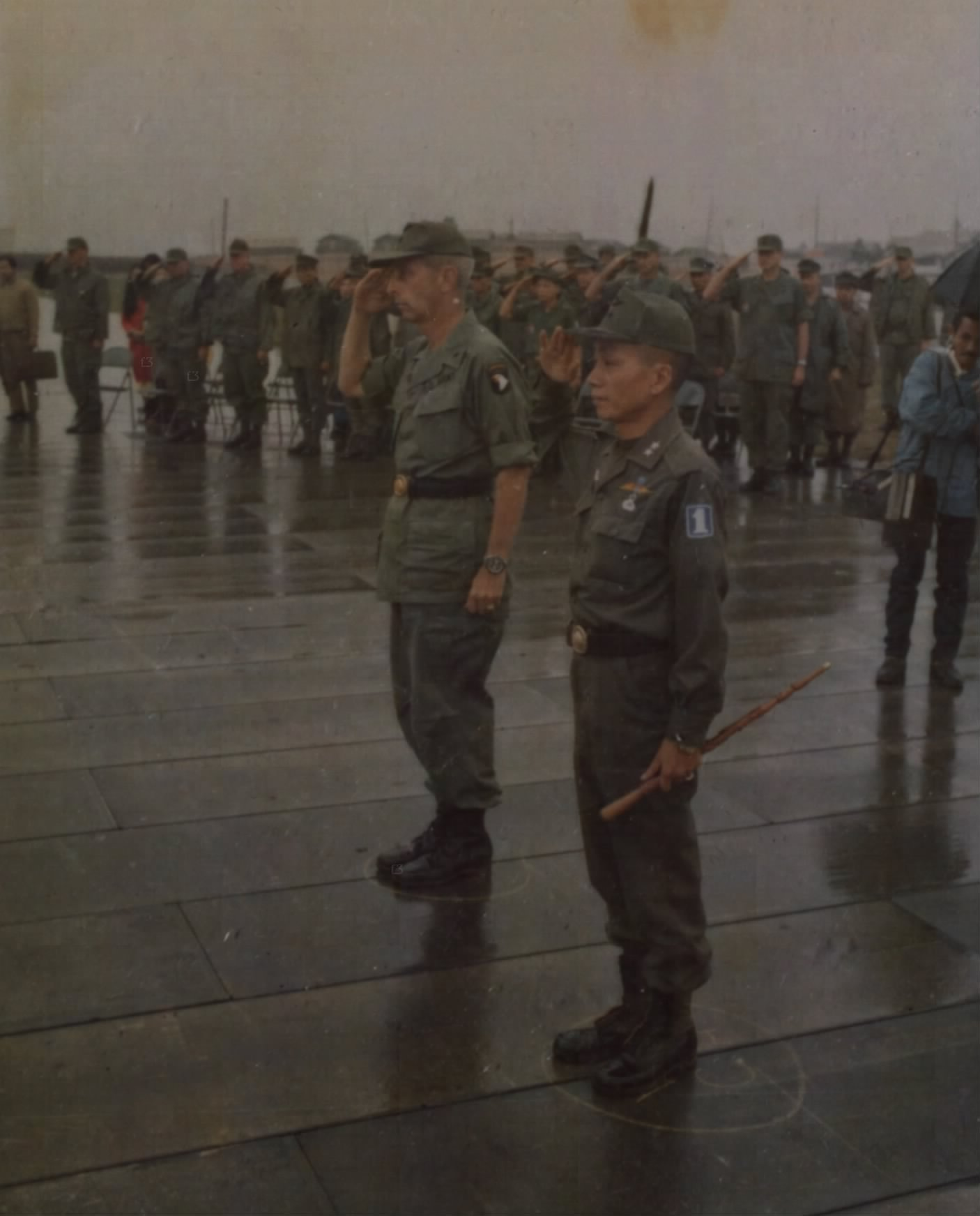 Brigadier General John G. Hill, Jr., ADC, 101st Airborne Division and Major General Phu, Commanding General, 1st ARVN Division, on the reviewing stand during turnover ceremonies